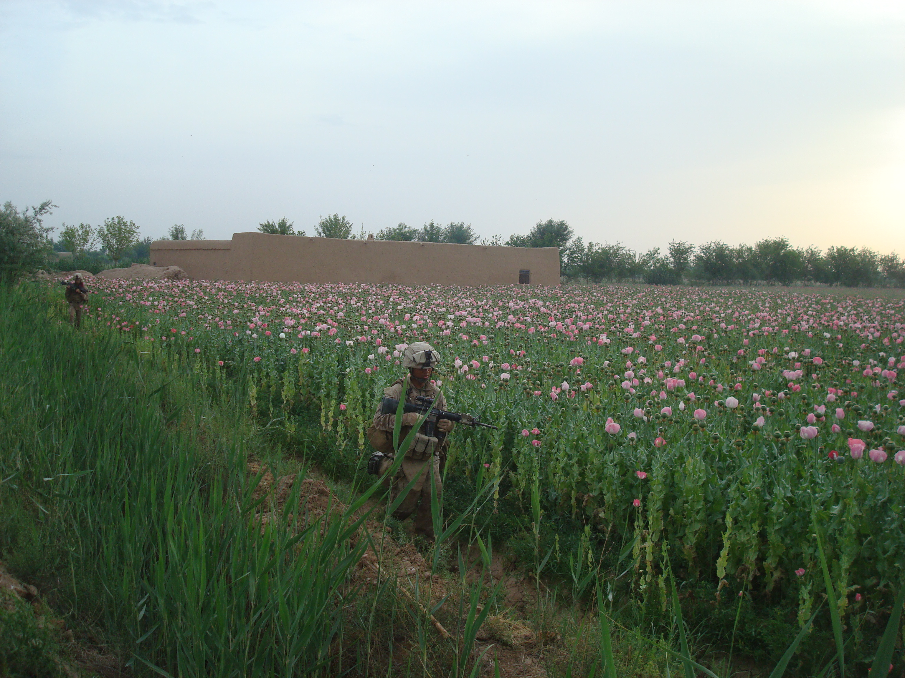 Marines from Charlie Company, 1 battalion 6th Marines regiment patrol though a poppy field in Marjah, Afghanistan, 2010